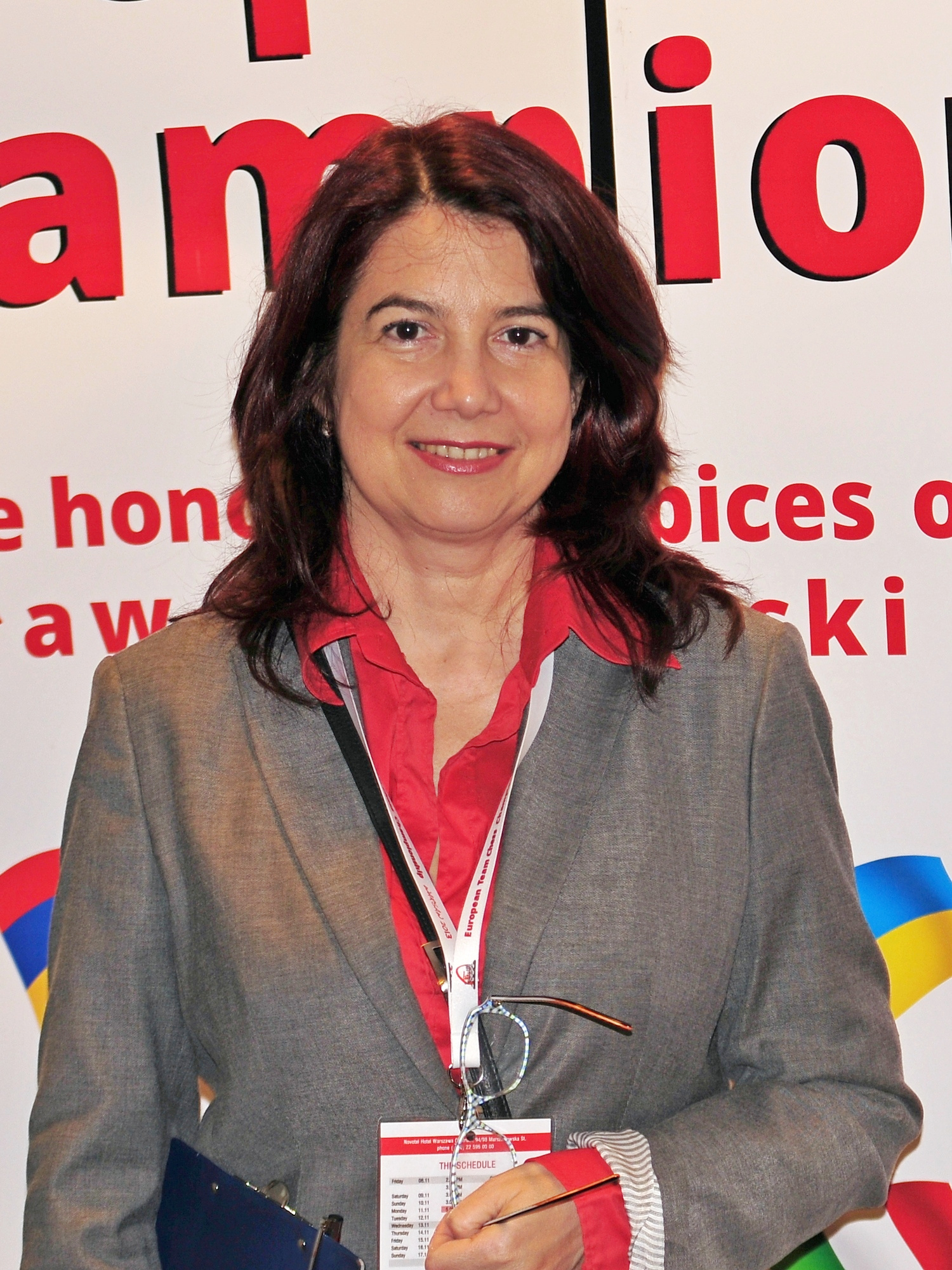 WGM Agnieszka Brustman, European Chess Team Championship Warsaw 2013